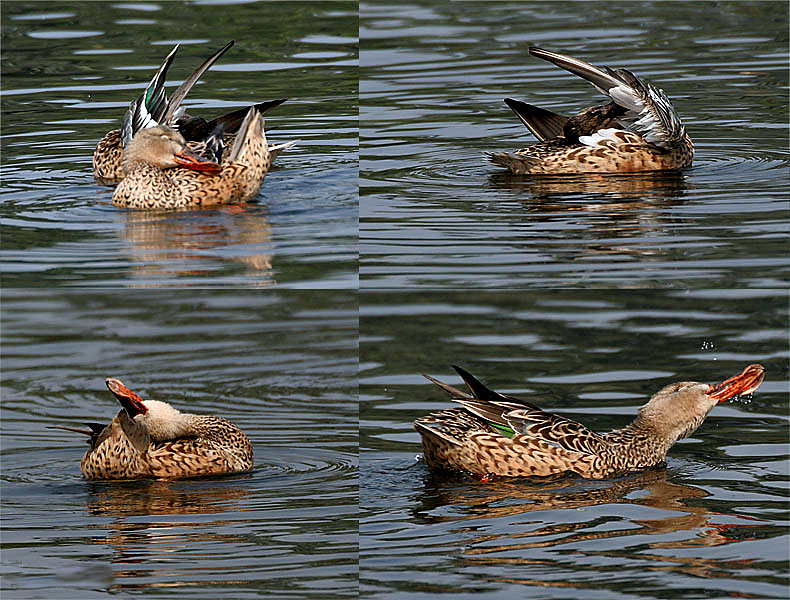 Northern Shoveler (Anas clypeata) in Kolkata, West Bengal, India.